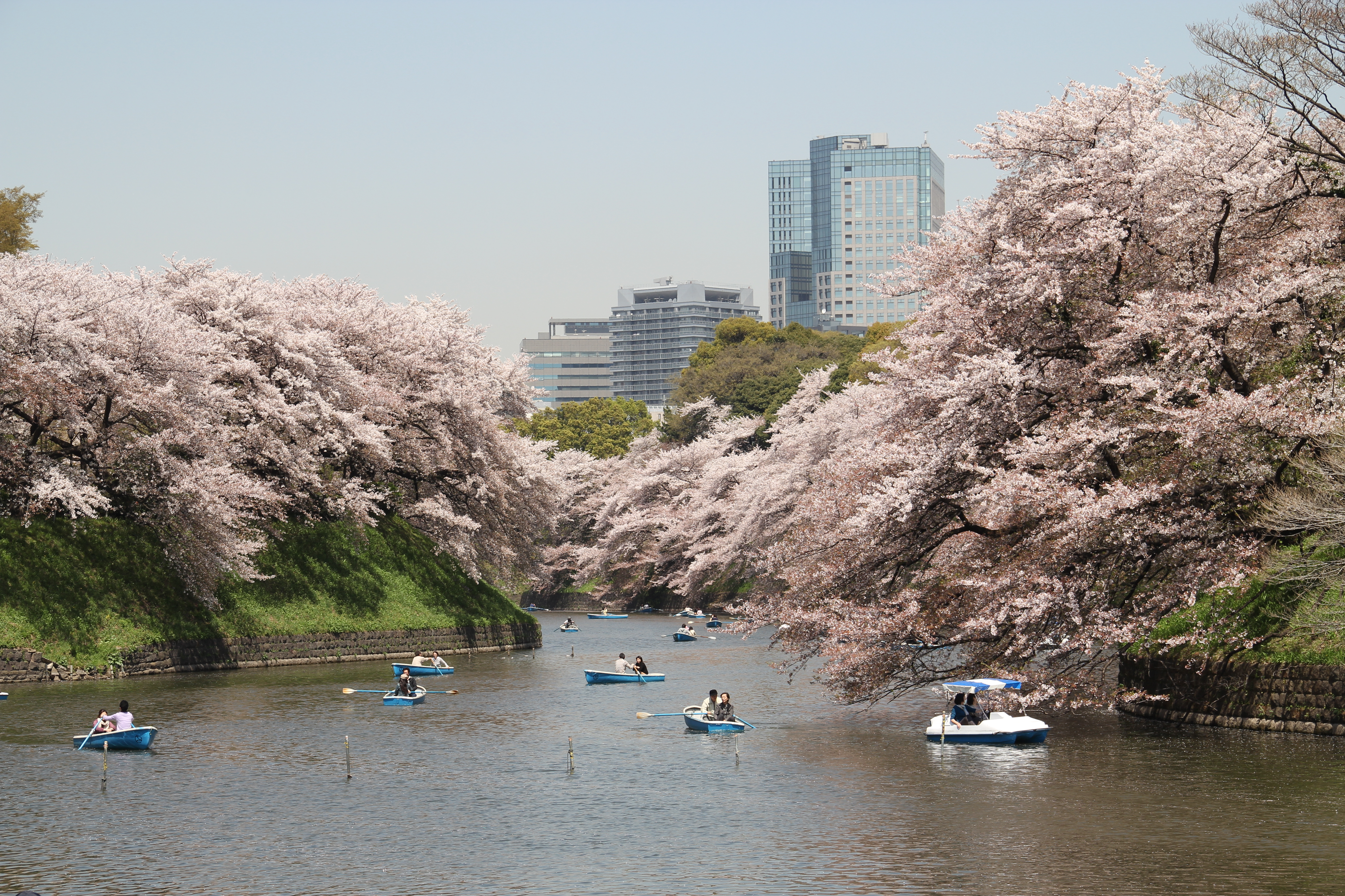 Sakura, Chidorigafuchi Moat, Tokyo Imperial Palace.